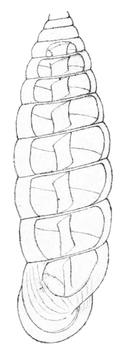 Drawing of columella of Holospira pasonis.